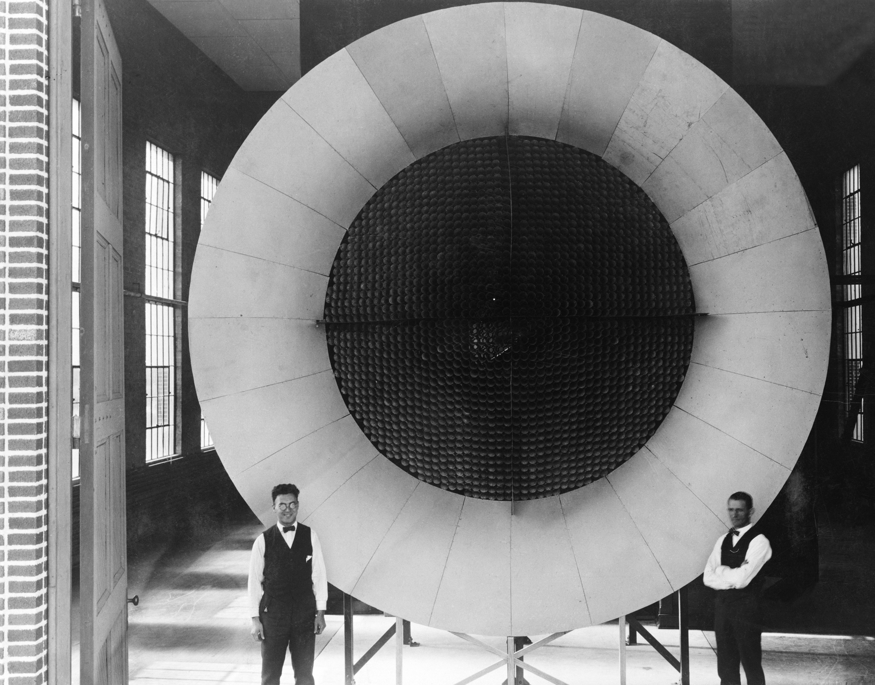 The honeycombed, screened center of this open-circuit air intake for Langley's first wind tunnel insured a steady, nonturbulent flow of air. Two mechanics pose near the entrance end of the actual tunnel, where air was pulled into the test section through a honeycomb arrangement to smoothen the flow.